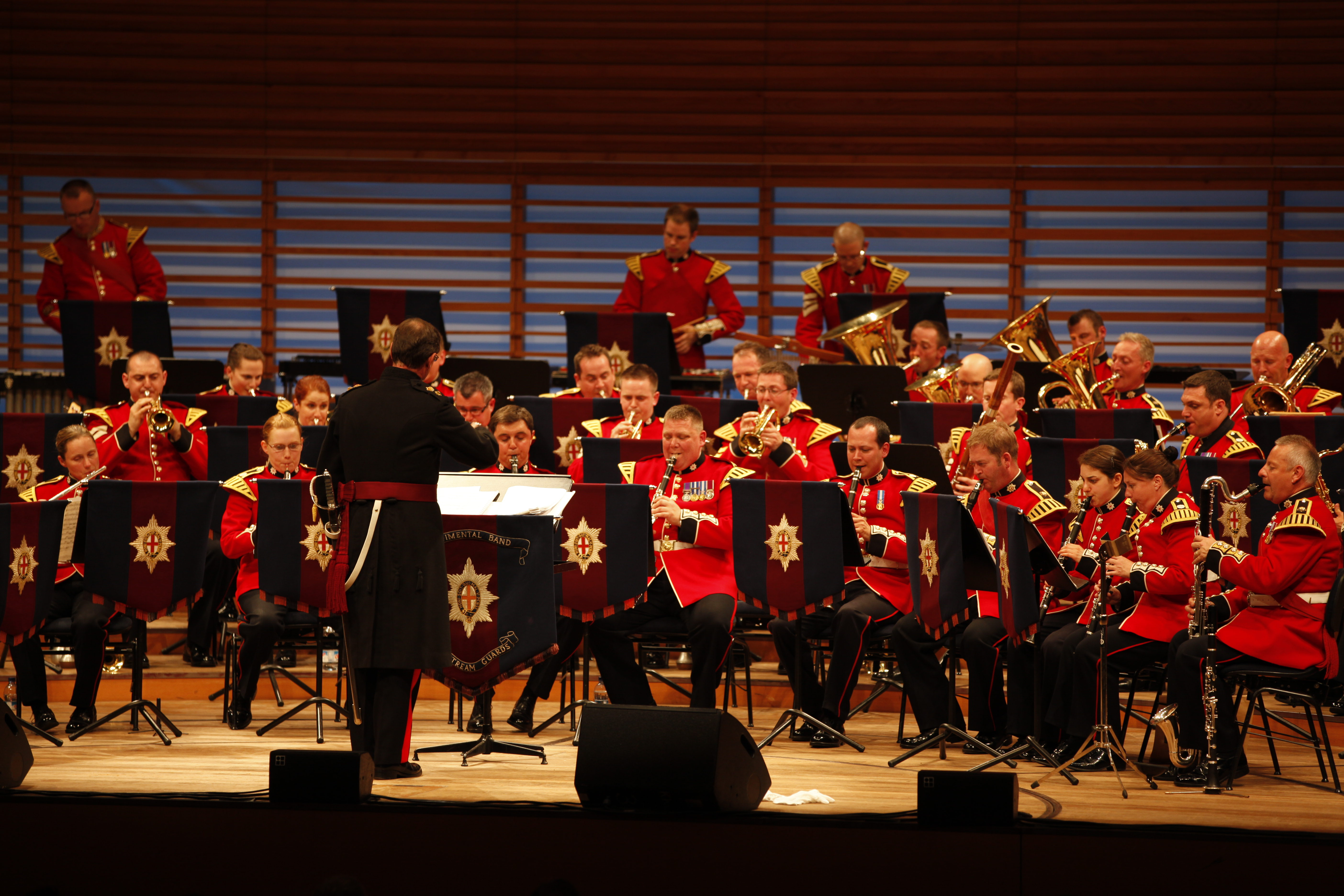 Basel Tattoo In Concert 2011